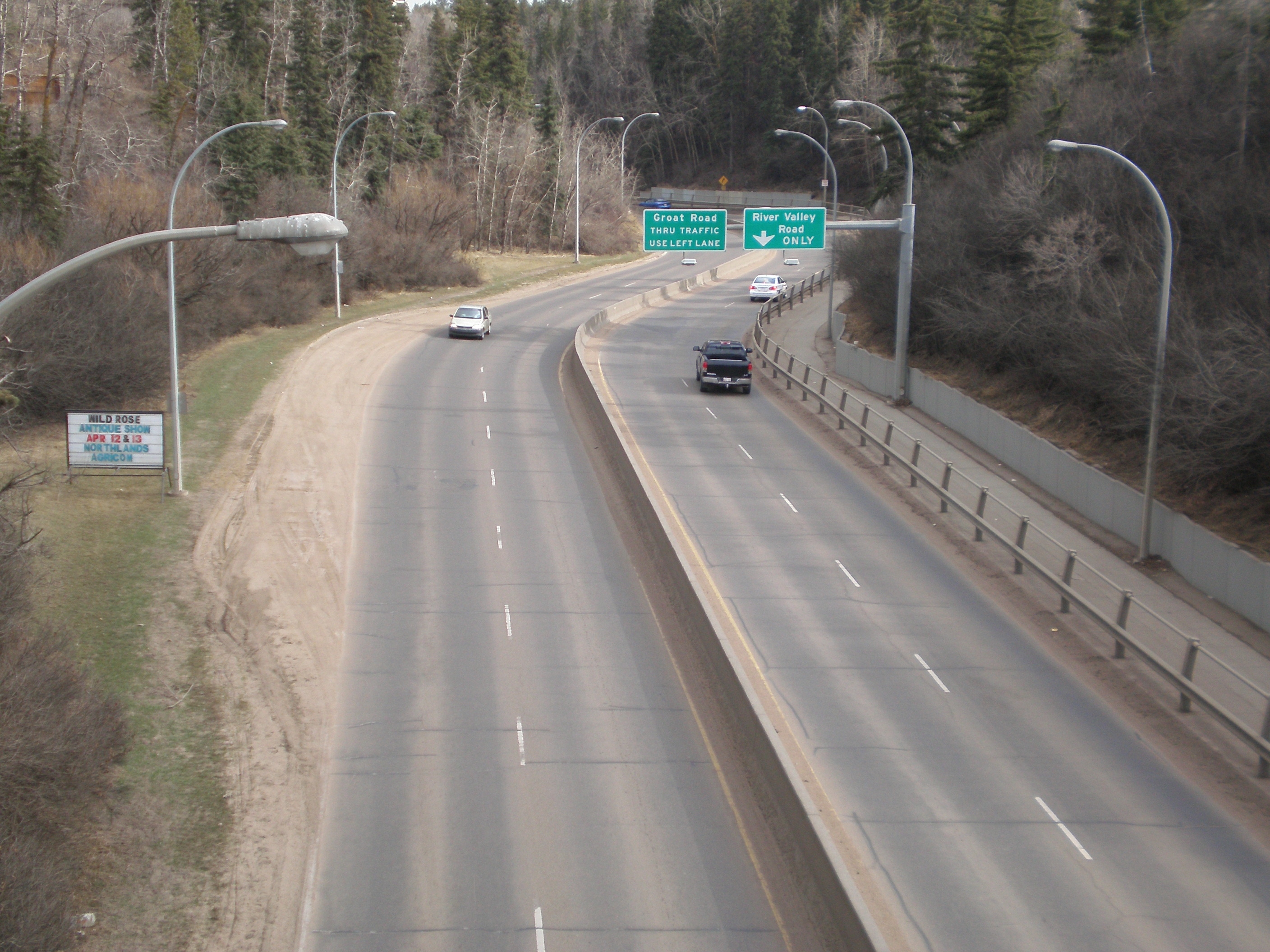 Groat Road, Edmonton, looking south from overpass April 2008.